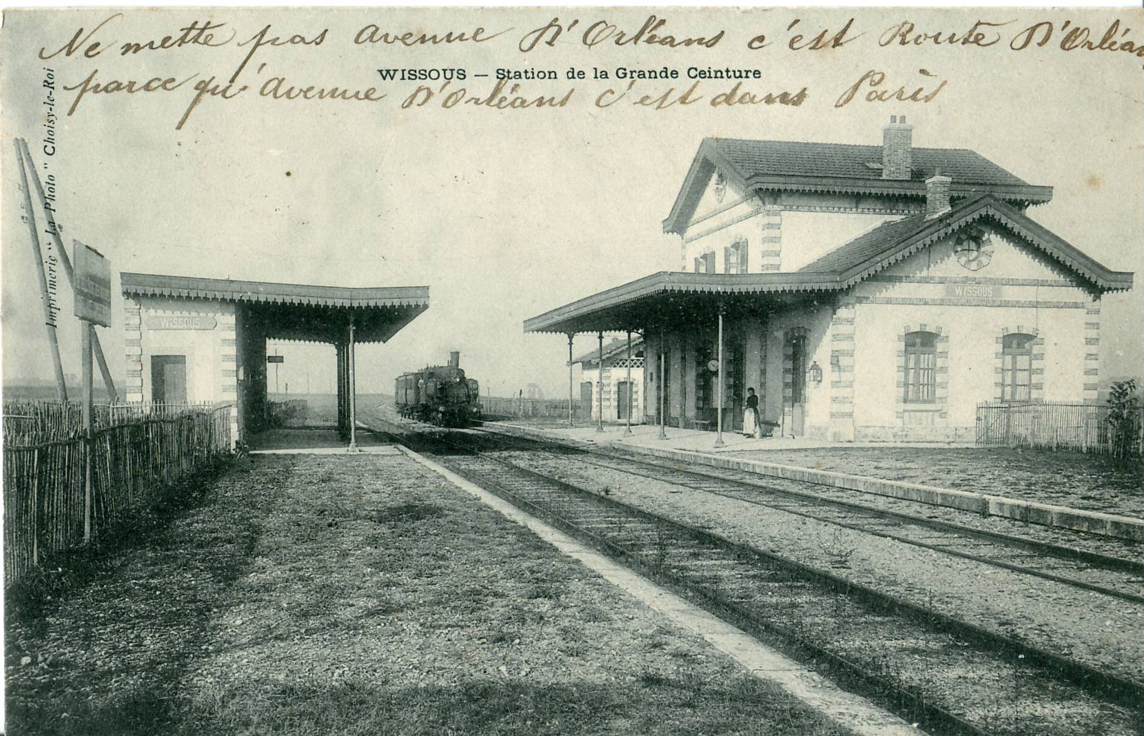 Old postcard published by the imprint "La photo" of Choisy-le-Roi - Wissous - Station of the Grande Ceinture line